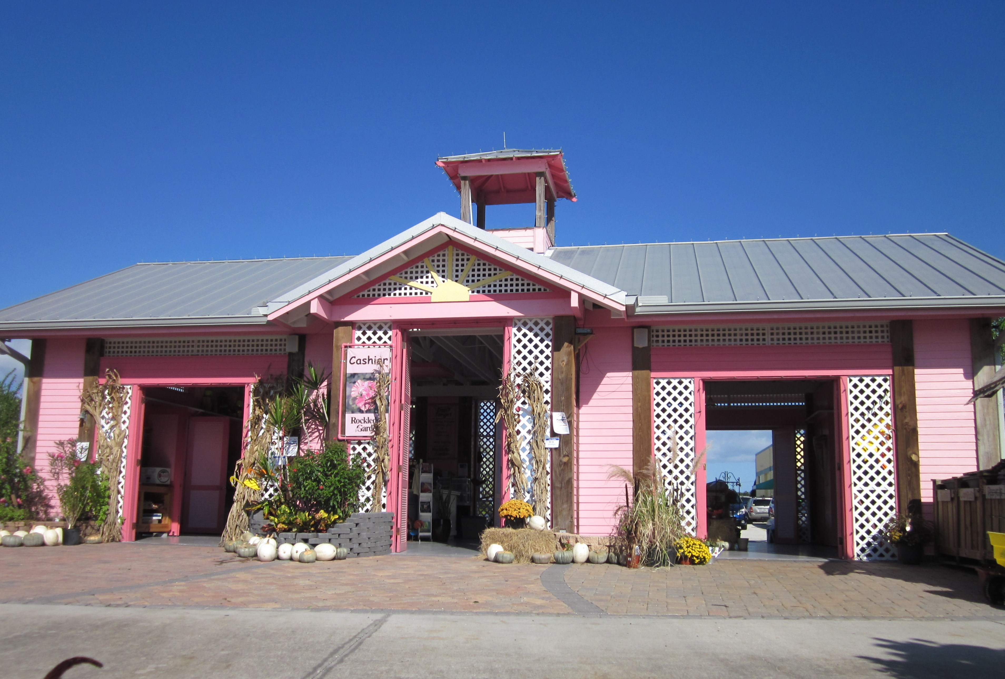 Rockledge Gardens store in Rockledge, FL.